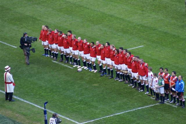 Team Scotland vs Team England